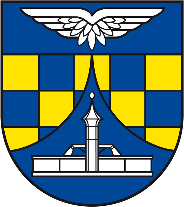 Coat of arms of Lautzenhausen